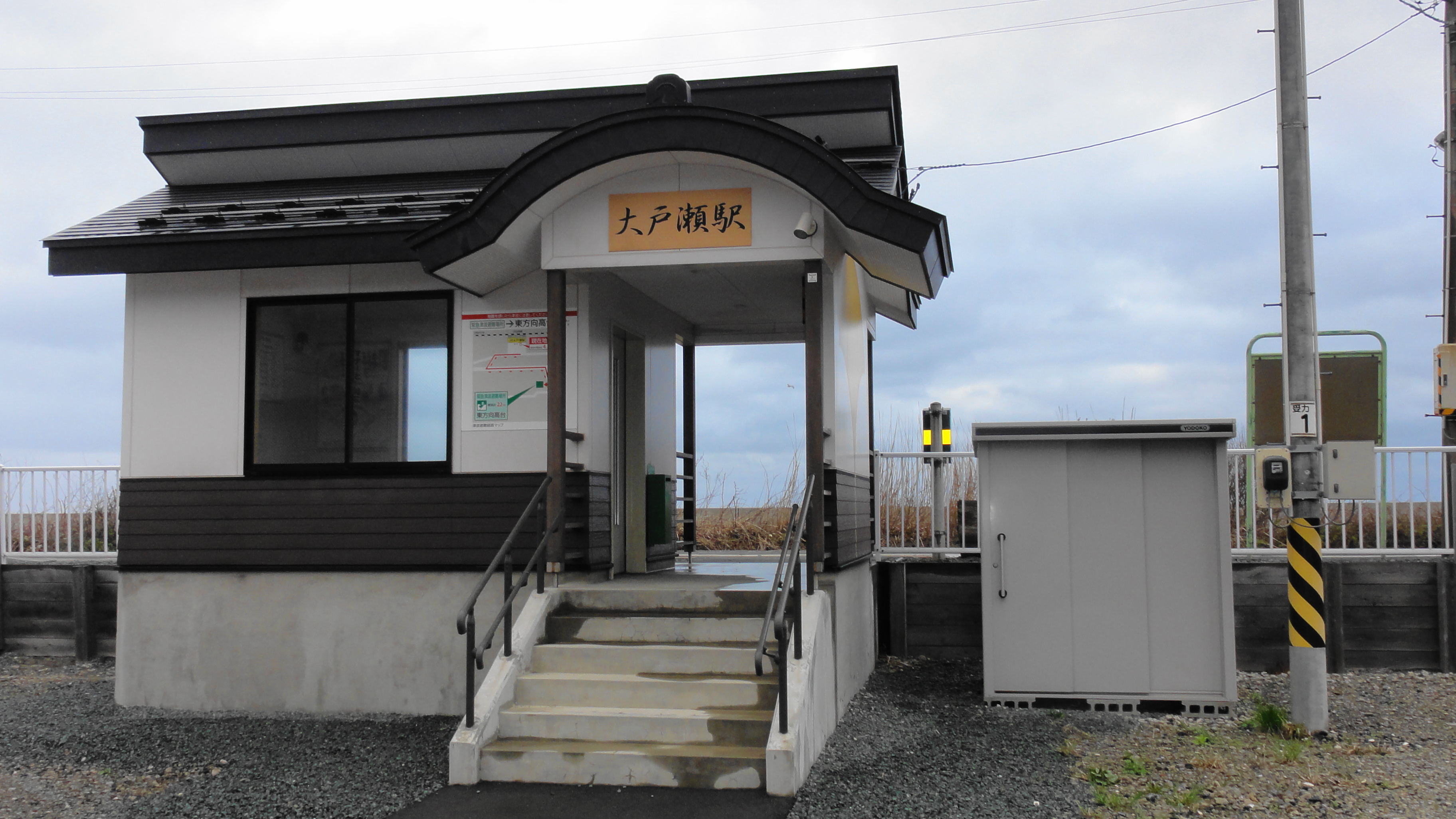 Ōdose station,Aomori prefecture,Japan